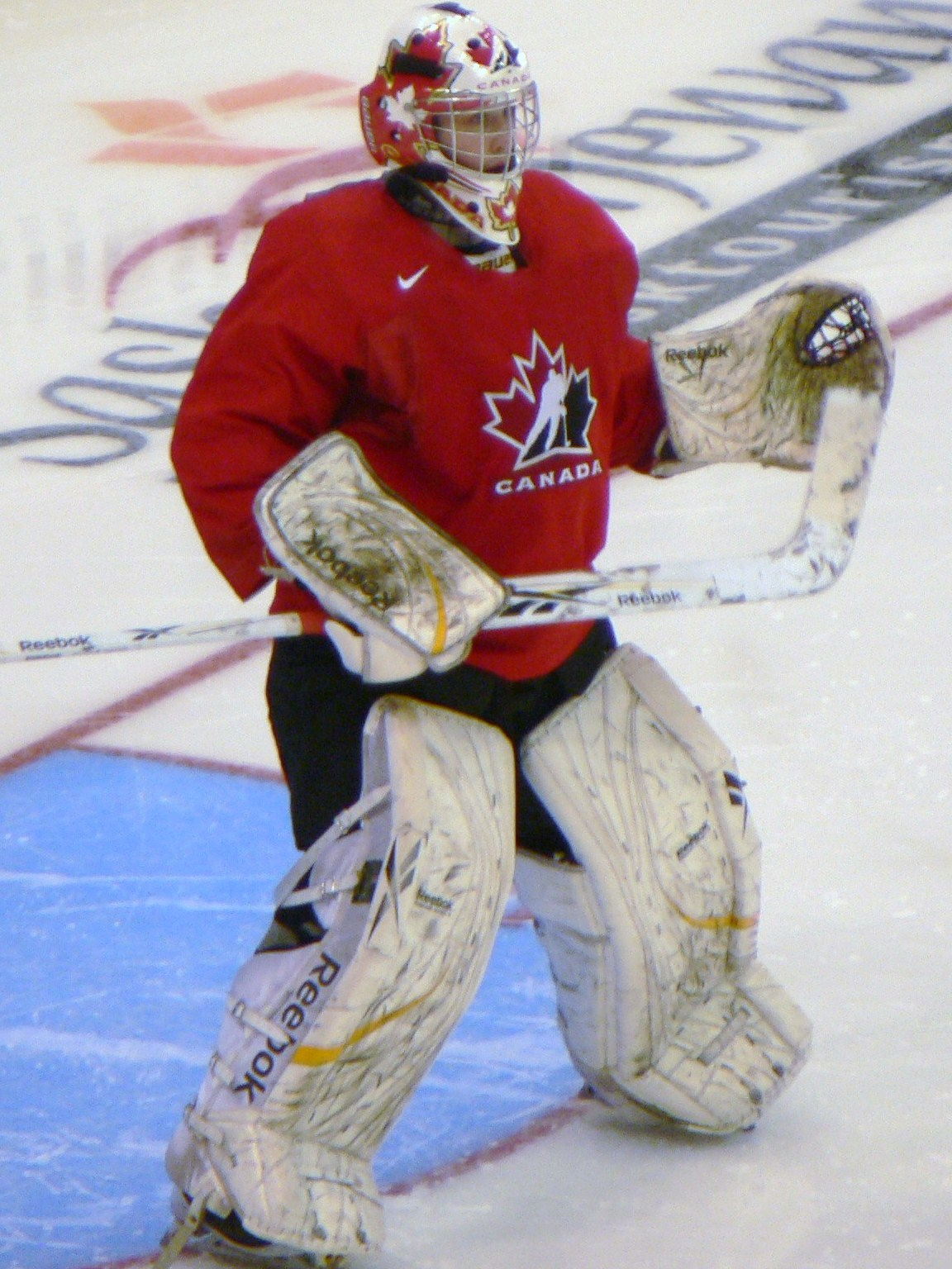 Olivier Roy during an intersquad game prior to the 2010 World Junior Championships.